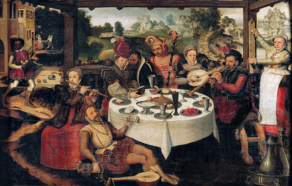 The Prodigal Son Among Courtesans.